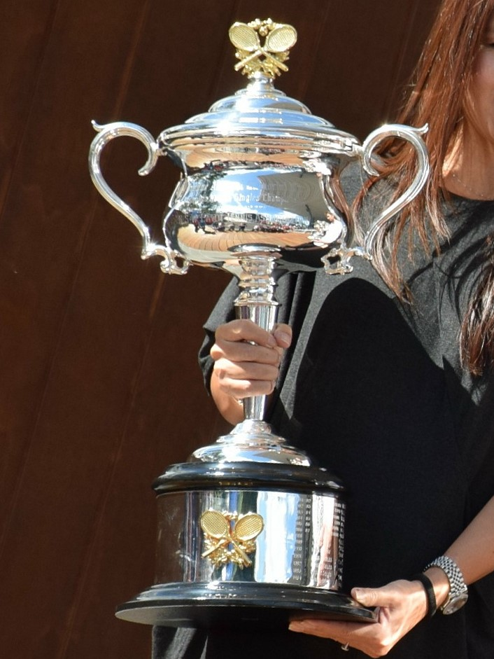 Daphne Akhurst Memorial Cup (chicks' trophy given out at the Australian Tennis Open Championships since ca. 1930+